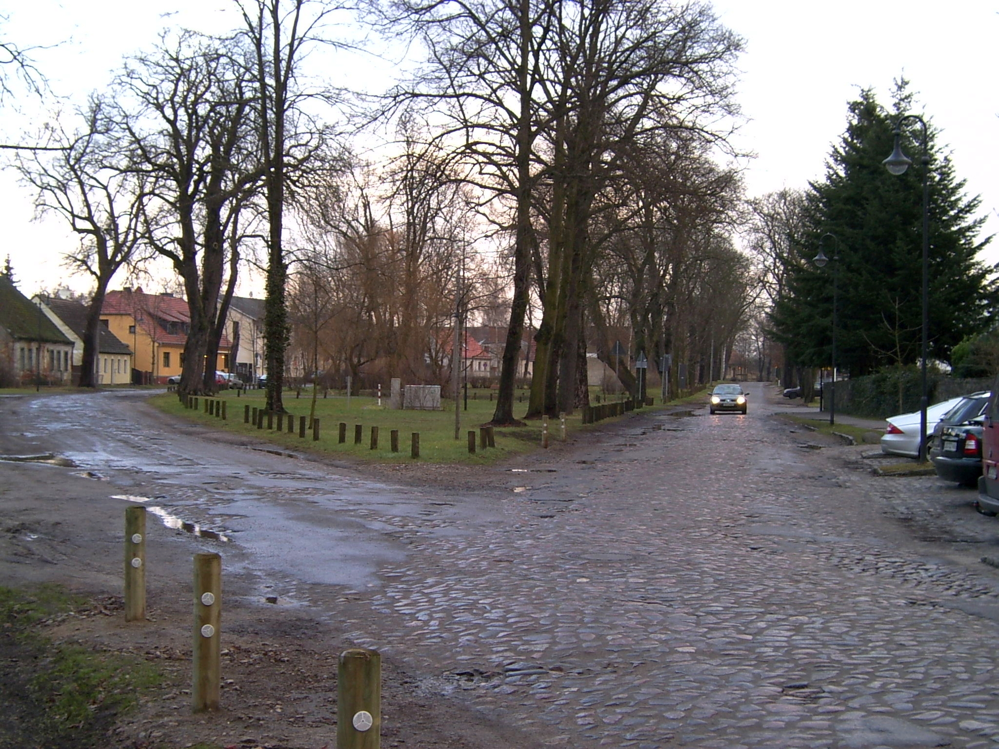 Schöneiche